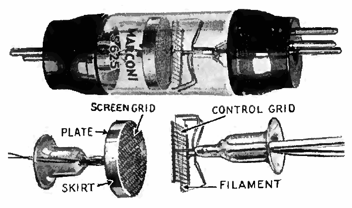 Marconi-Osram S625 vacuum tube, the first commercially produced screen grid tube tetrode). It was designed by Marconi's chief engineer H. J. Round in 1926 and came out in 1927. The complete tube is shown at top, and the internal electrodes at bottom. The screen grid was added to the triode to reduce capacitance between the plate and the grid electrodes to prevent parasitic oscillations; in high frequency amplifiers the capacitance acted as a feedback path to couple energy from the output plate circuit back into the grid circuit, causing the tube to become an oscillator. The overall design of the S625 was directed toward isolating the grid circuit from the plate. Unlike most tubes the S625 had a linear axial construction, with the filament, grid, screen grid, and plate in line down the axis of the tube. The screen grid is in the form of a cylinder with metal gauze on the front which completely encloses the plate. The tube is double-ended, with the secreen and plate connections at one end and the filament and grid connections at the other. It was designed to be mounted horizontally, projecting through a metal partition between two shielded compartments; the grid circuit in one compartment, and the plate circuit in the other, to prevent feedback. Although it was successful in the specialist applications for which it was designed (intercontinental shortwave communication) it was less successful in the commercial radio receiver market. Due to production requirements it used a thoriated tungsten filament (called a "bright emitter") which didn't have the high electron emission of the oxide coated filaments used in other tubes.